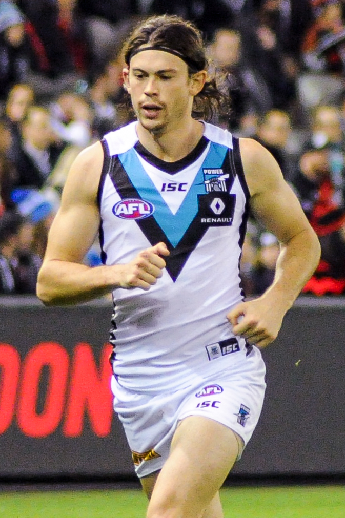 Jasper Pittard during the AFL round twelve match between Essendon and Port Adelaide on 10 June 2017 at Etihad Stadium in Melbourne, Victoria.